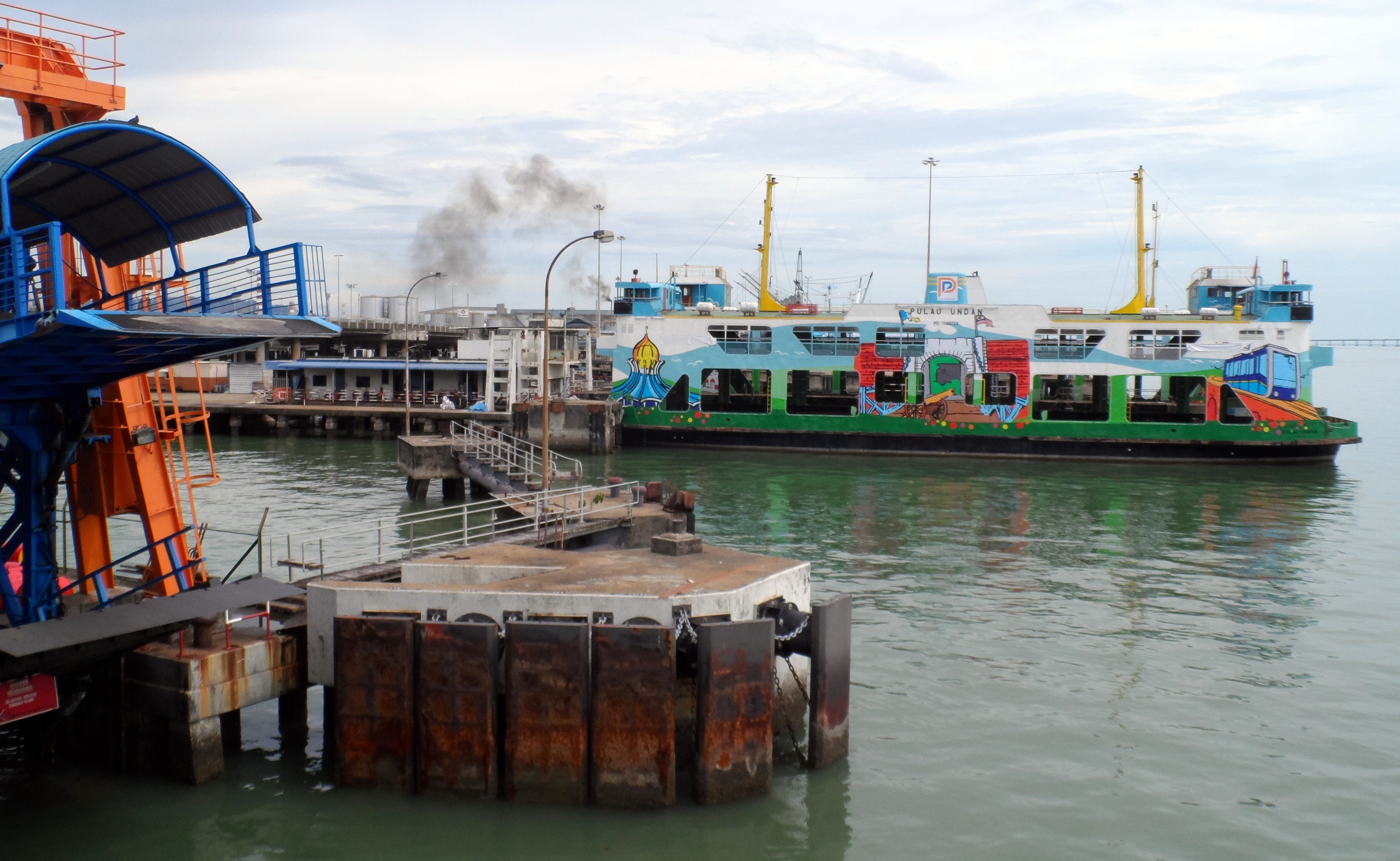 Rapid Ferry's Pulau Undan ferry at the Butterworth ferry terminal in Penang, Malaysia